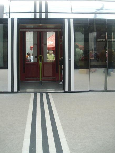 Bandes Buren Tramway Tours